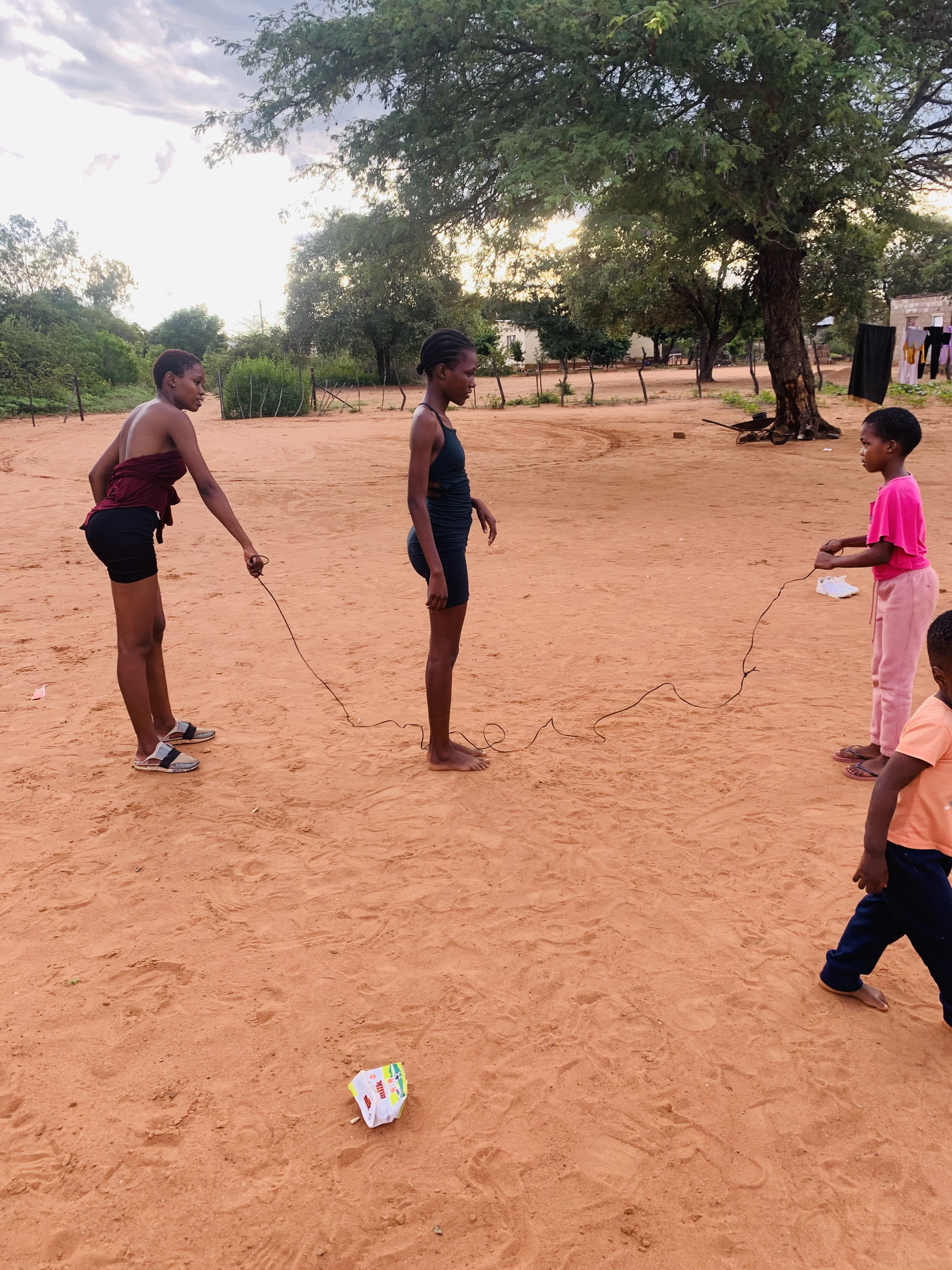 The Traditional Filipino Street Games played in the Philippines